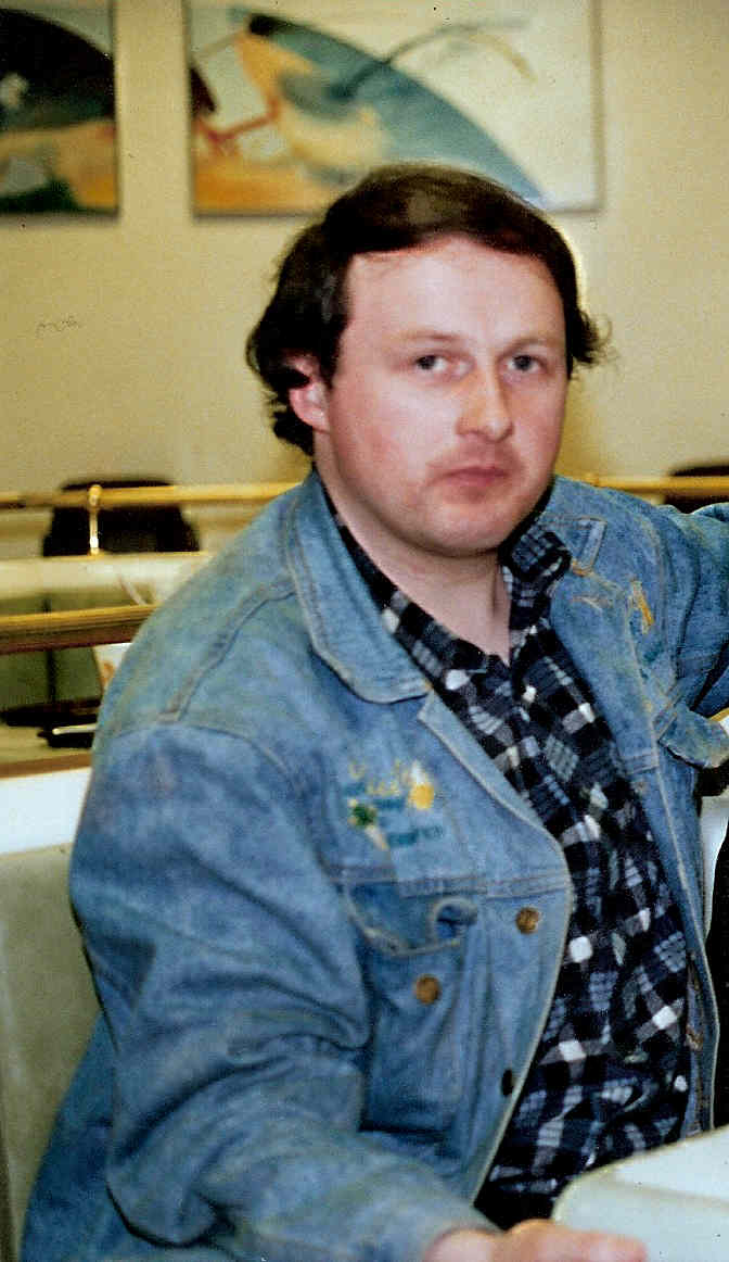 The Irish poet Cathal Ó Searcaigh. Photograph by Éamonn Ó Gribín (Úsáideoir:Éóg1916).